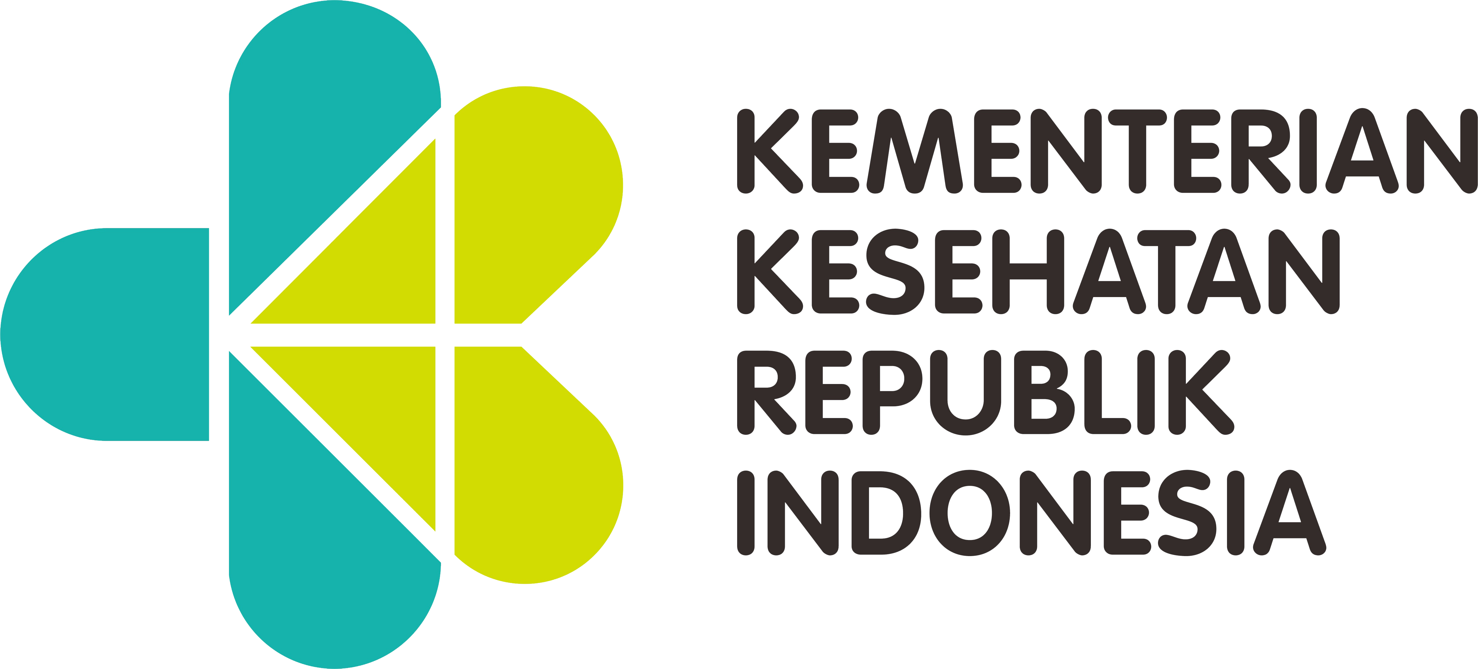 Logo of Ministry of Health (Indonesia), used since 14 November 2016